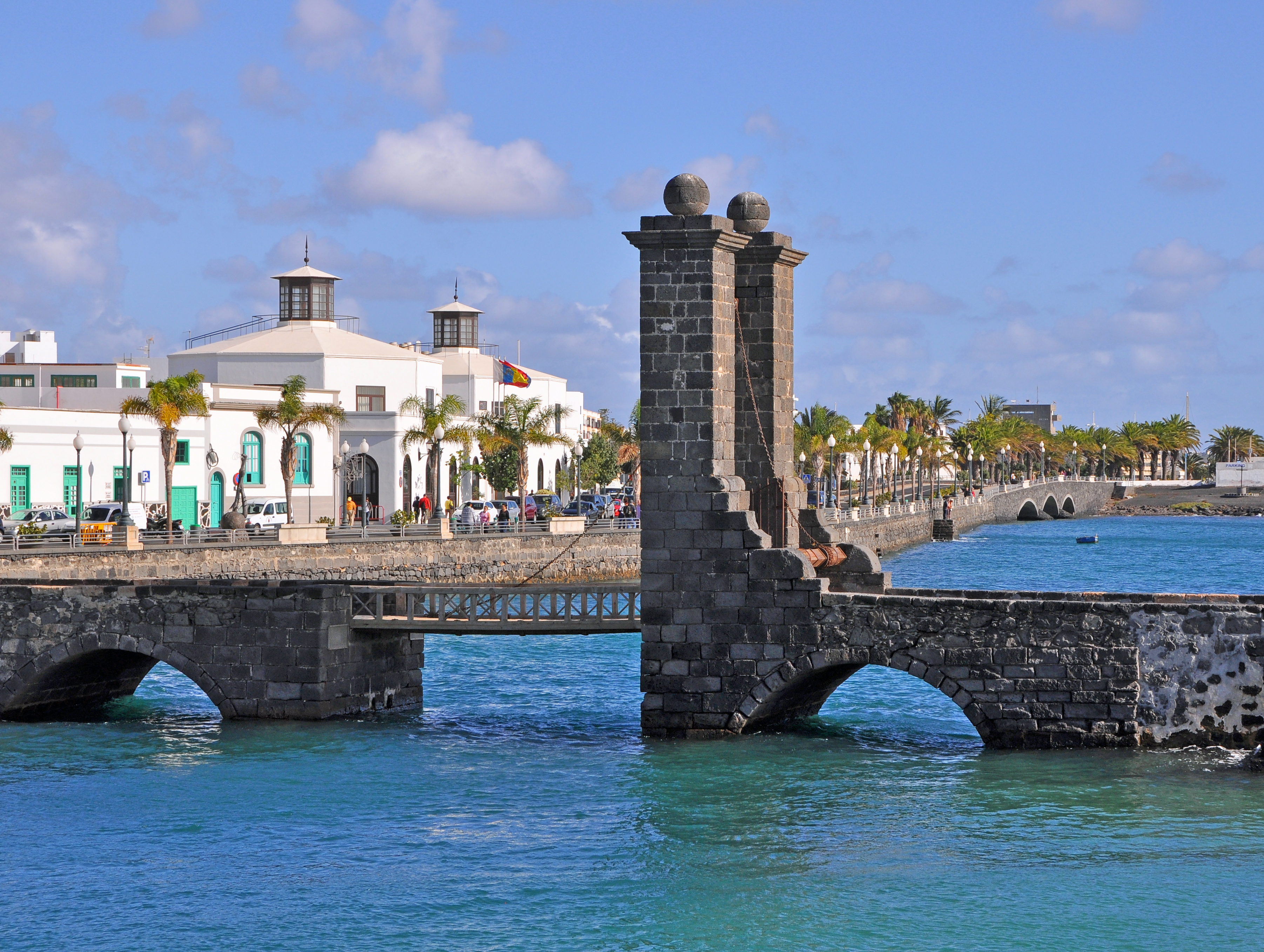 Arrecife (Lanzarote, Canary Islands): Puente de las Bolas